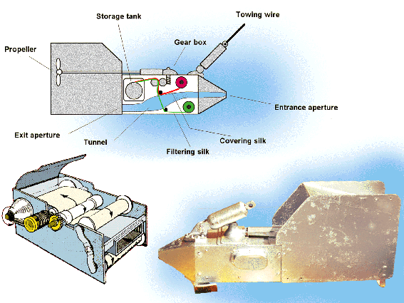 This is an image of the SAHFOS CPR